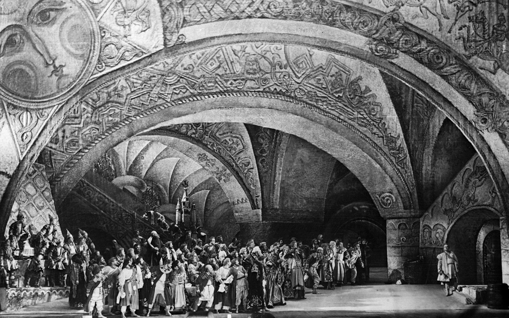 “Bolshoi Theater of USSR”. Opera singers in a scene from Act 1 of Nikolai Rimsky-Korsakov's opera Sadko staged at the State Academic Bolshoi Theater of the USSR.